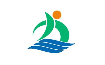 Flag of Kami Kochi